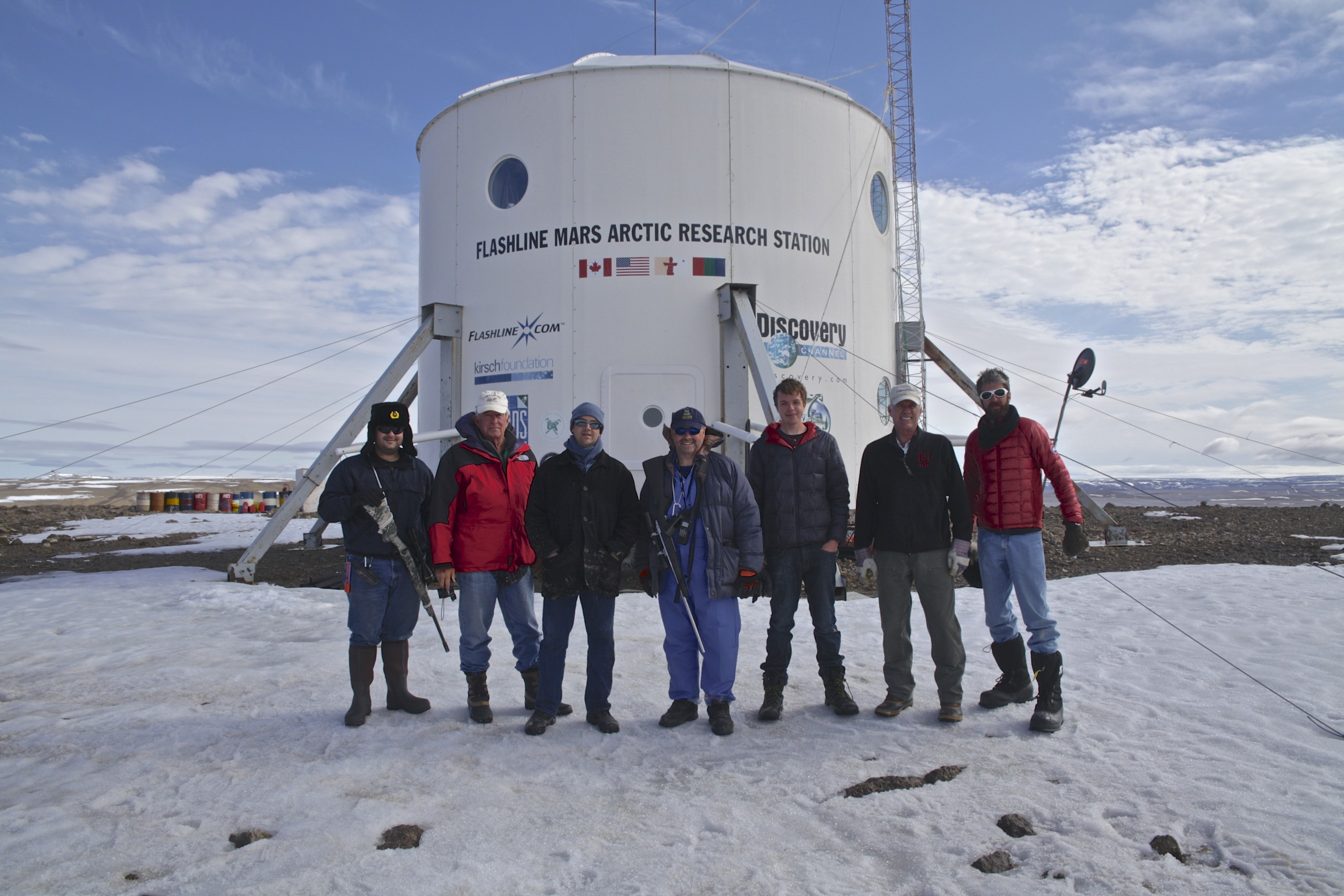 Photograph taken at the Flashline Mars Arctic Research Station (FMARS) on Devon Island, Canadian Arctic. Photo shows most of FMARS Crew 13 (2013), including from left to right Justin Sumpter, Dr. Richard Sugden, Joseph E. Palaia, IV, Adam Nehr, Garrett Edquist, Richard Spencer, and Dr. Alexander Kumar.